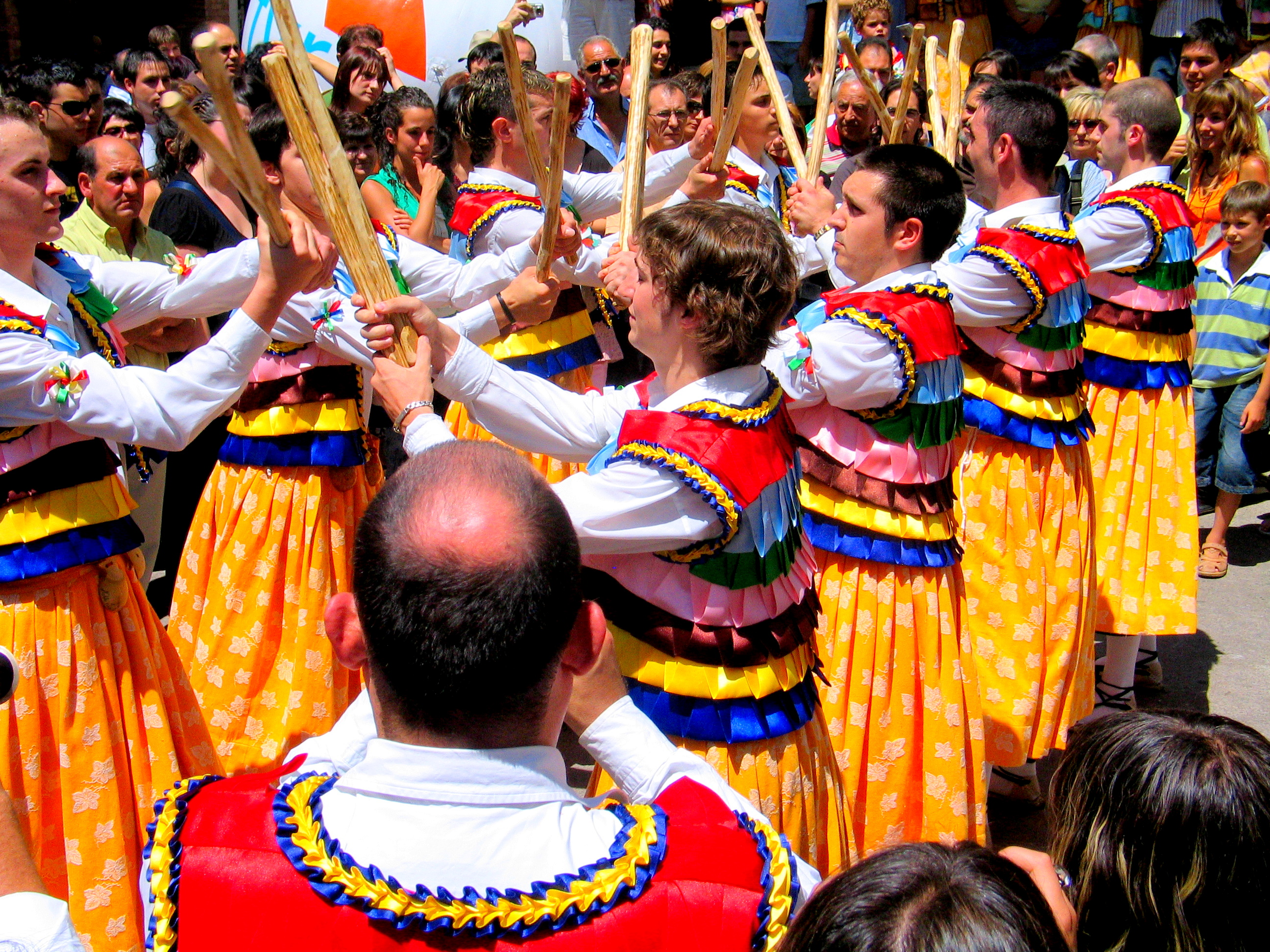 Stick dance in Anguiano, La Rioja, Spain